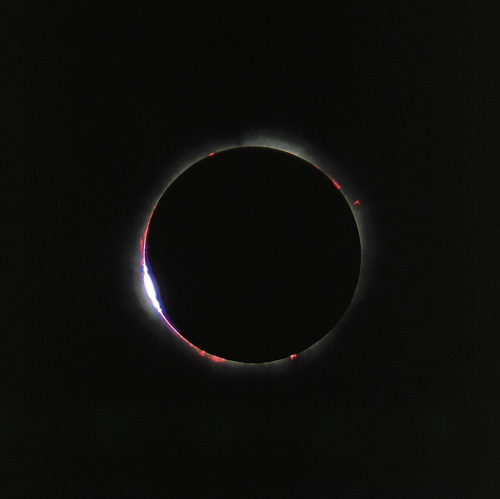 The 1999 Solar eclipse in France (View 2).